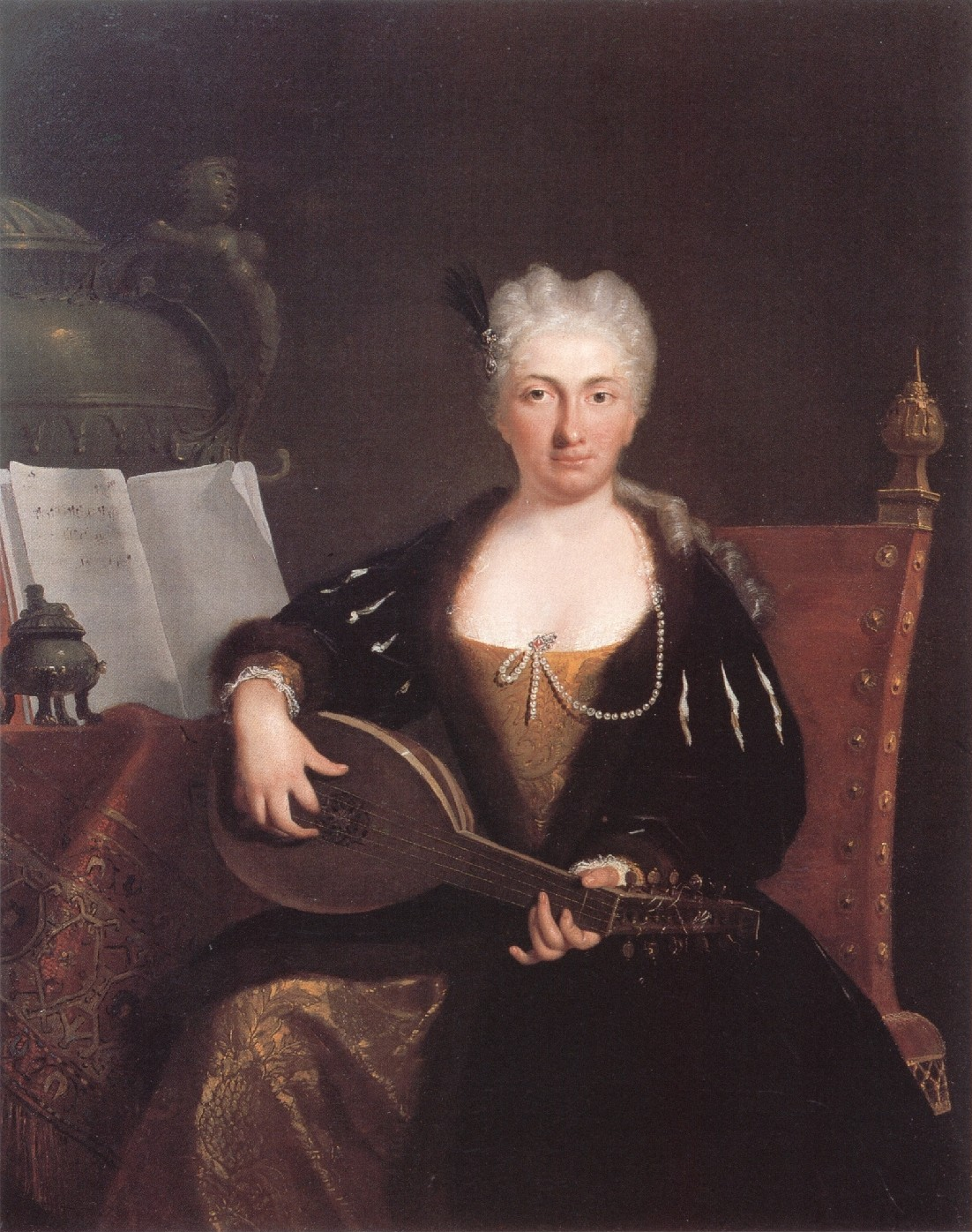 Portrait of Faustina Bordoni (1697-1781), Italian opera singer